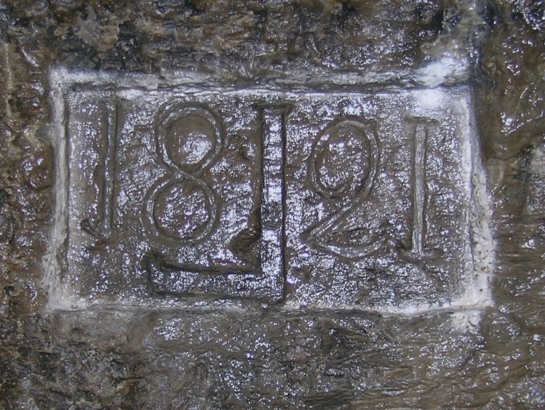 Engraving in a mine tunnel, point reached by the end of year 1821.